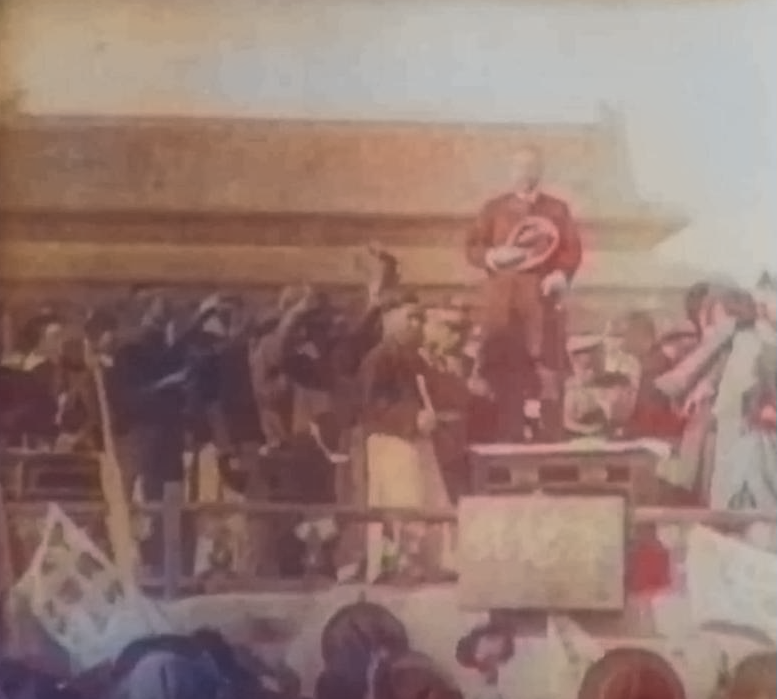 Sun Yat-sen gathered by a large crowd of people, for the proclamtion.